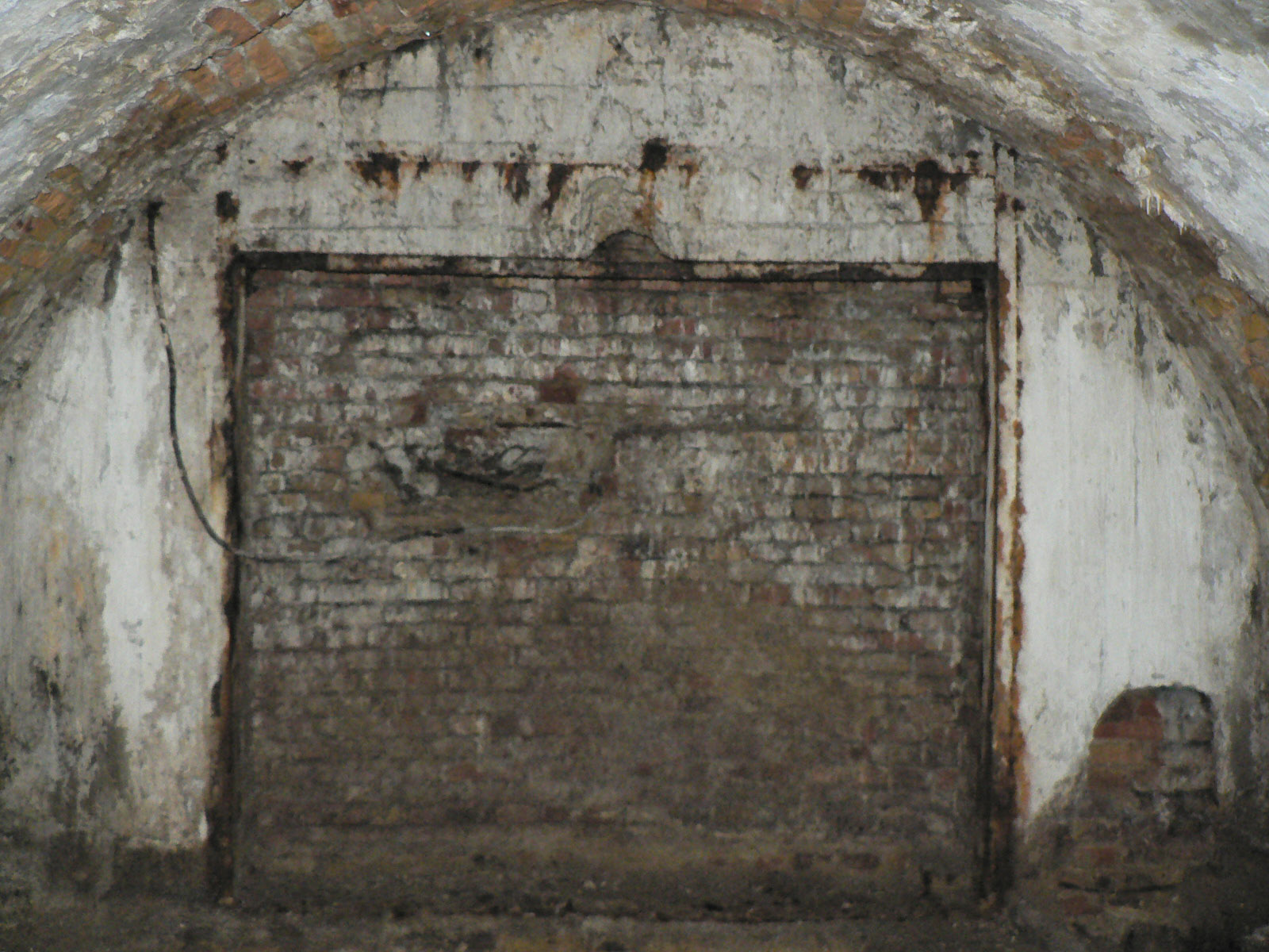 A Solymár-aknai segédtáró belsó vége a lefalazással